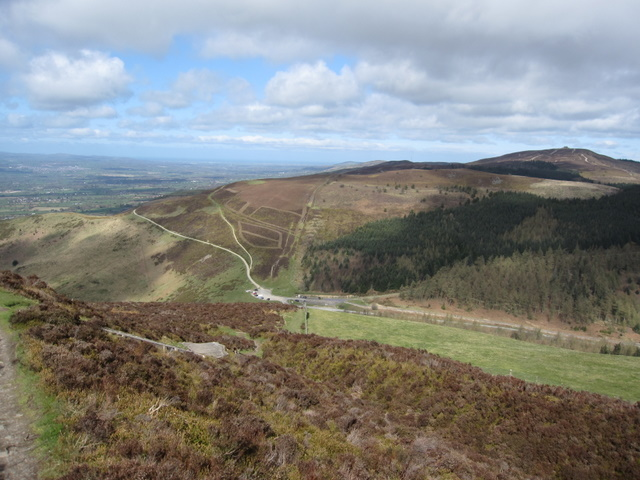 View of Bwlch pen Barras from Foel Fenlli The outer banks of Foel Fenlli give a commanding view of Bwlch pen Barras far below. The car park is clearly visible and the Offa's Dyke LDP is the distinctive left hand path curving its way towards Moel Famau seen at top right.